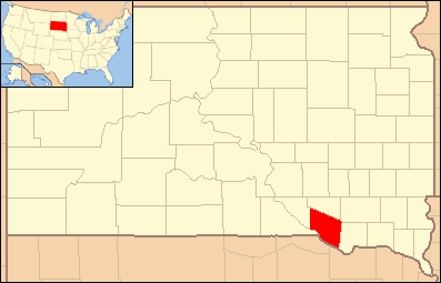 Locator map for the Yankton Indian Reservation in South Dakota, USA.